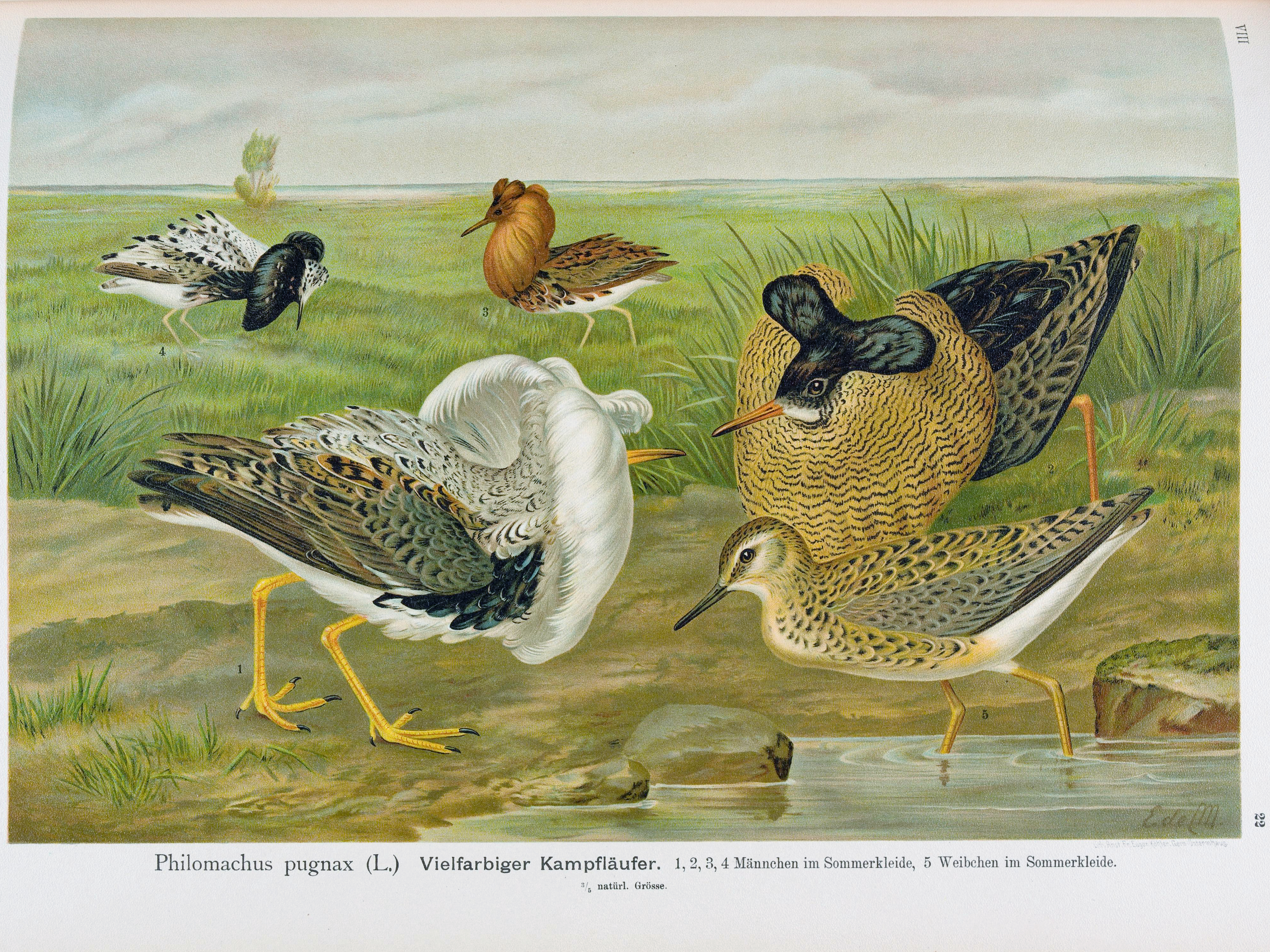 Ruff displaying its plummage